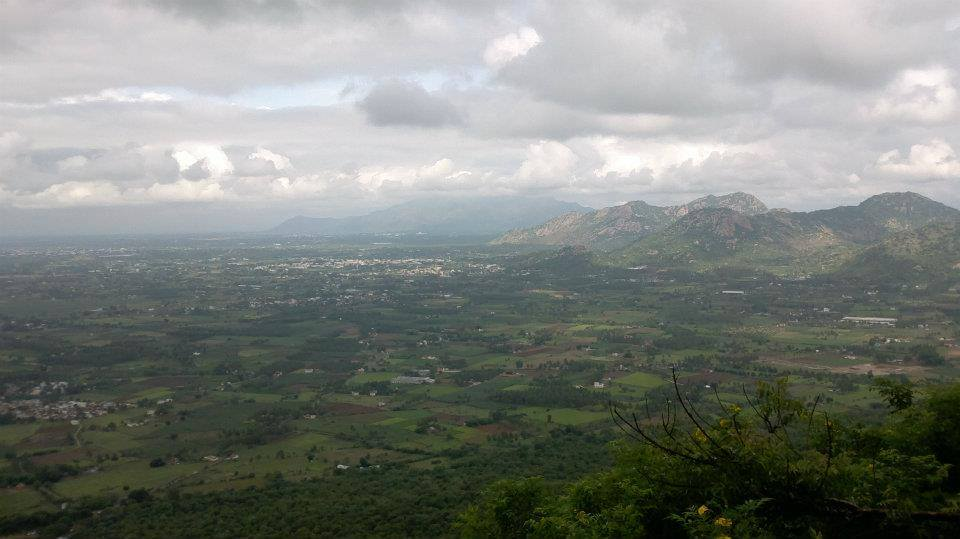 Areal view of Vennandur from Alavaimalai